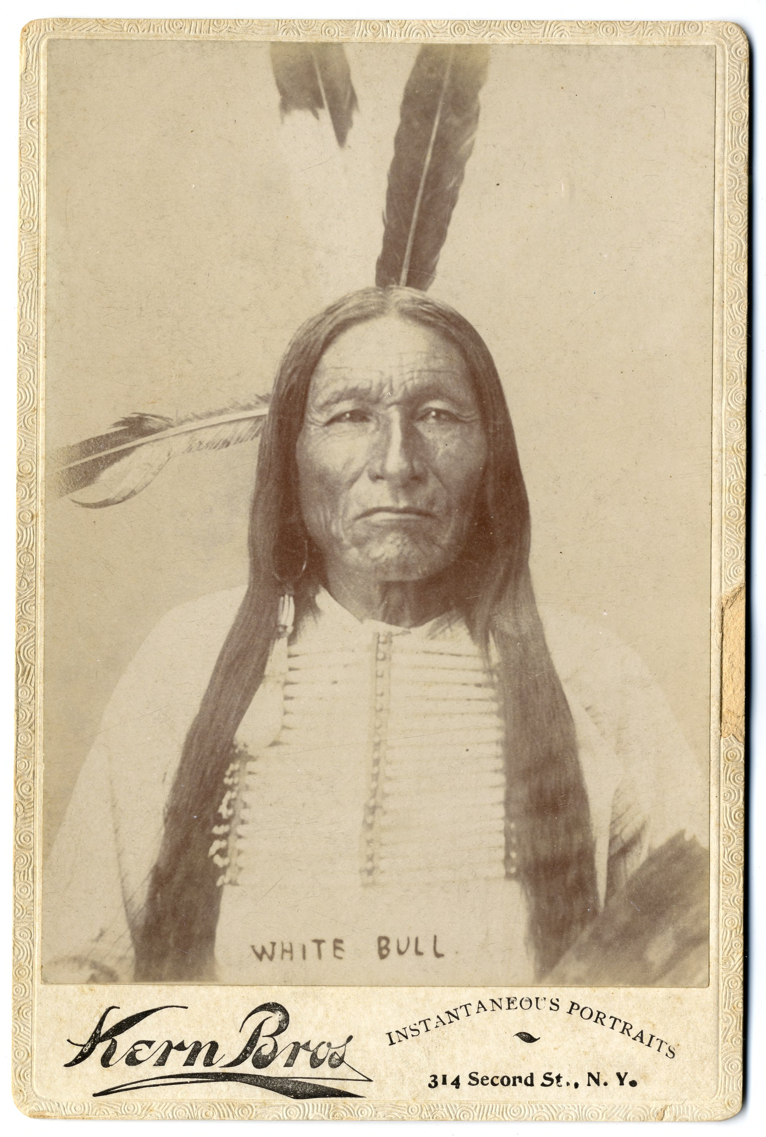 Albumen print cabinet card of head and shoulders portrait of White Bull (1849-1947)